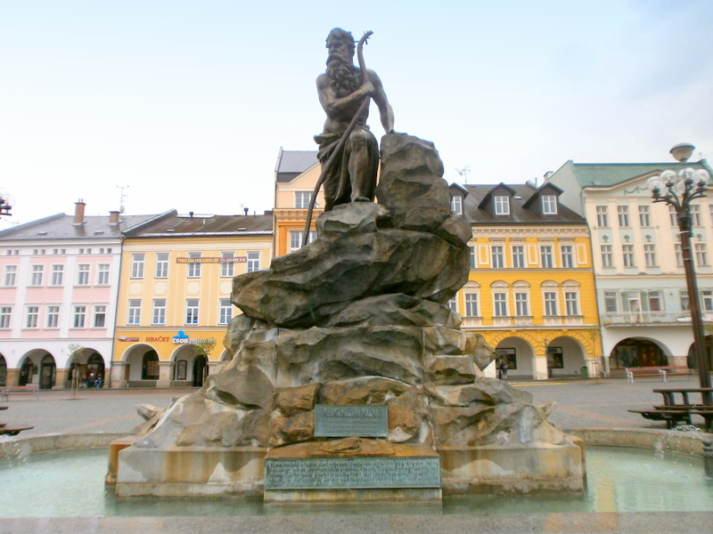 The Ruebezahl Fountain in Trutnov (Czech Republic)